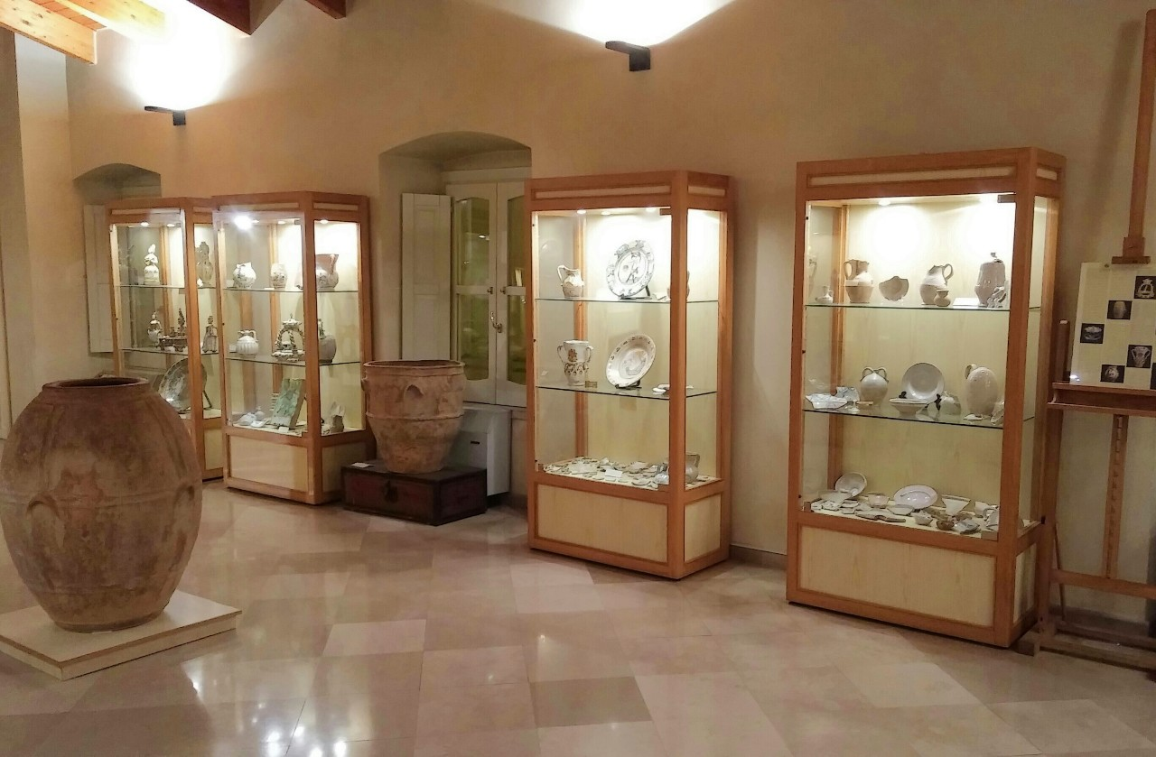 Civic Museum of Majolica in Ariano Irpino (Italy)